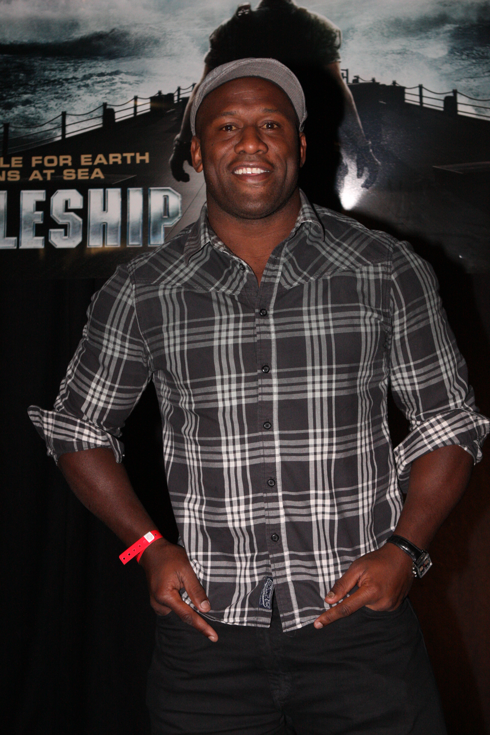 The cast of BATTLESHIP at Luna Park Sydney, for the Australian Premiere.